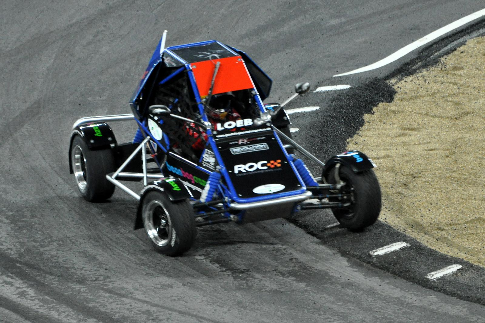 Sébastien Loeb driving RX 150 at 2008 Race of Champions, Wembley Stadium